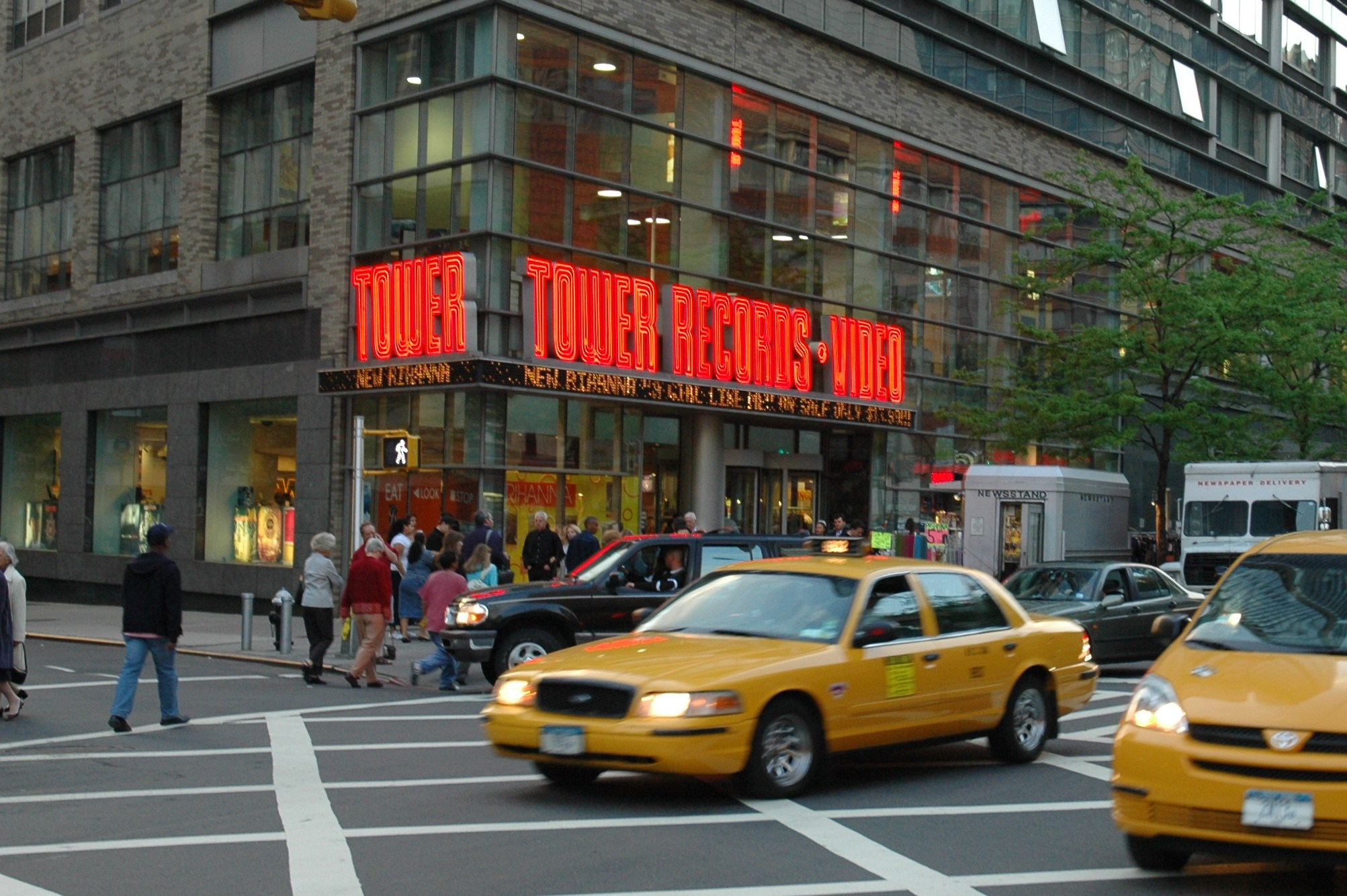 The now-closed Tower Records Store in Manhattan, New York, New York.